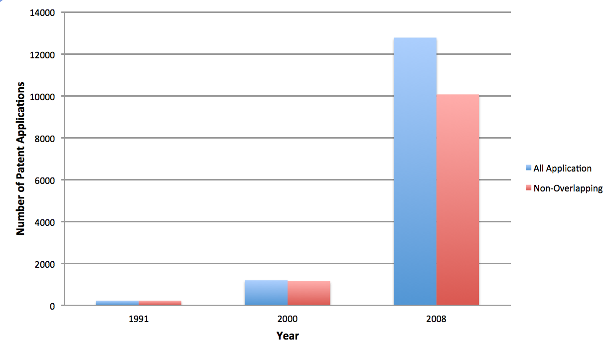 MY OWN TABLE2 DESCRIPTION